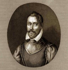 Engraved portrait of Maximilien de Henin-Liétard, count of Boussu, royal stadtholder of Holland, Zeeland and Utrecht 1567-73